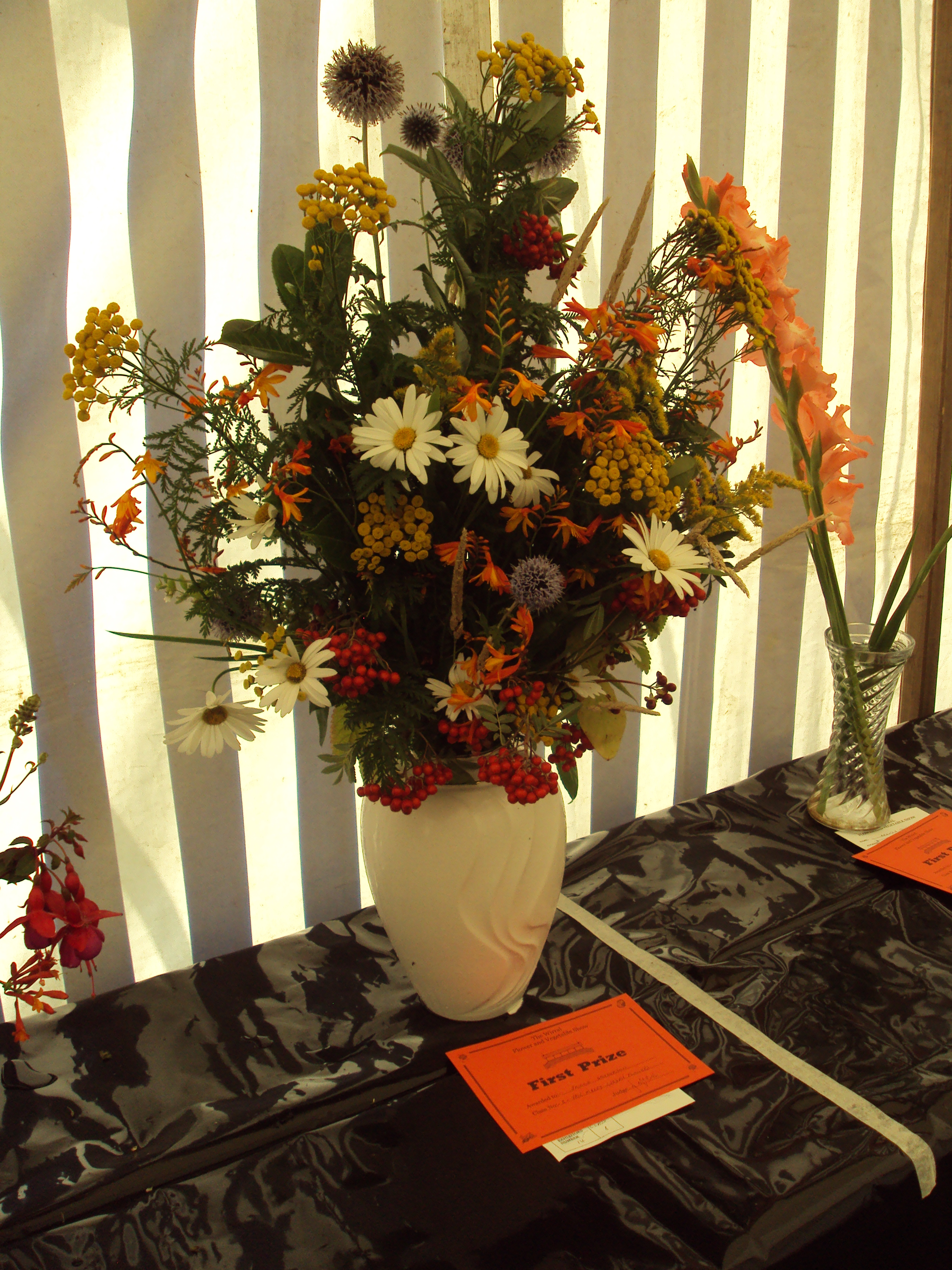 Flowers at the 5th Wirral flower and vegetable show, Birkenhead Park, Merseyside, England.